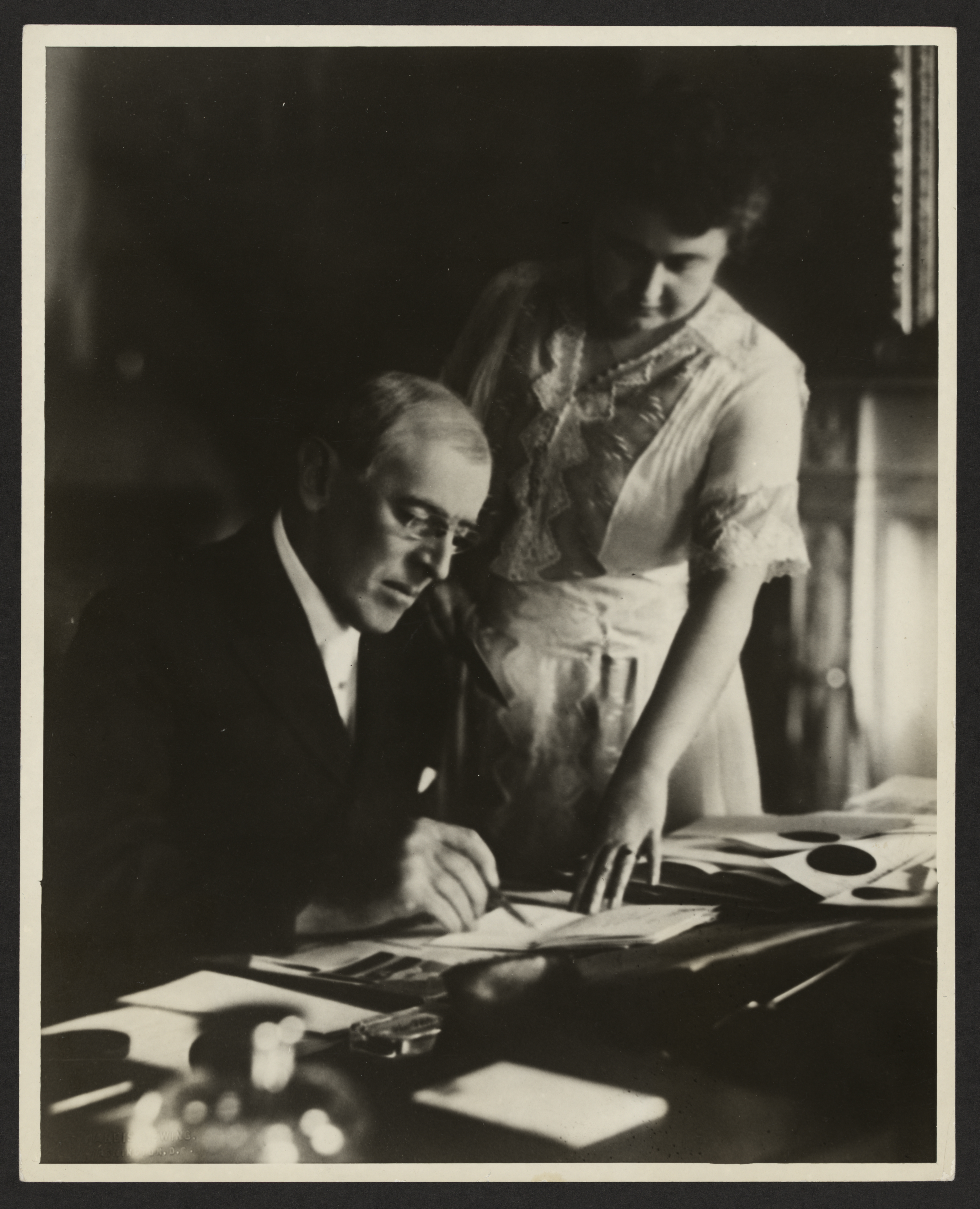 President Woodrow Wilson, seated at desk with his wife, Edith Bolling Galt, standing at his side. First posed picture after Mr. Wilson's illness, White House, June 1920. Mrs. Wilson holds a document while the President adds his signature.